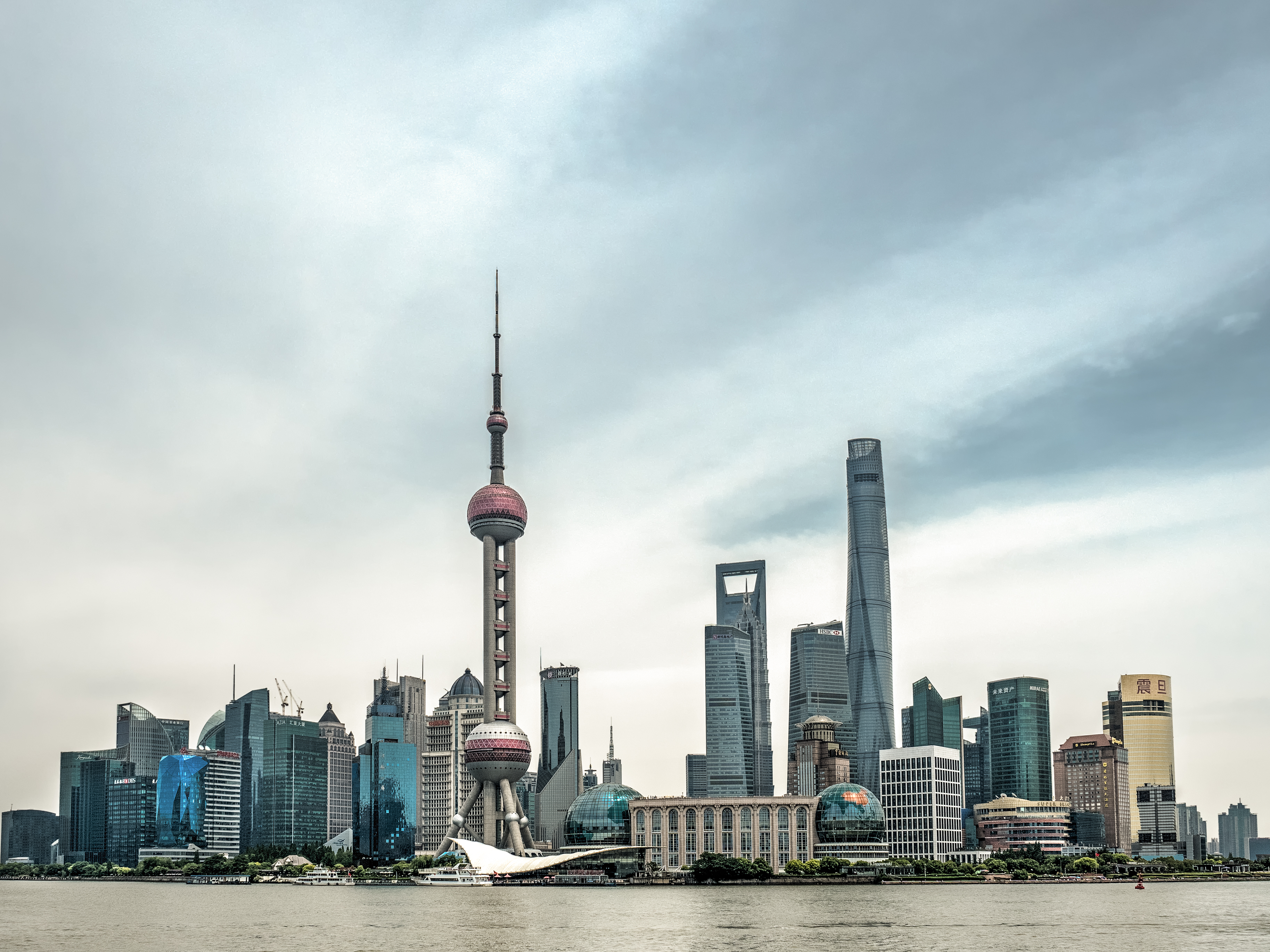 View towards the Shanghai skyline and waterfront in Pudong with the new Shanghai tower.